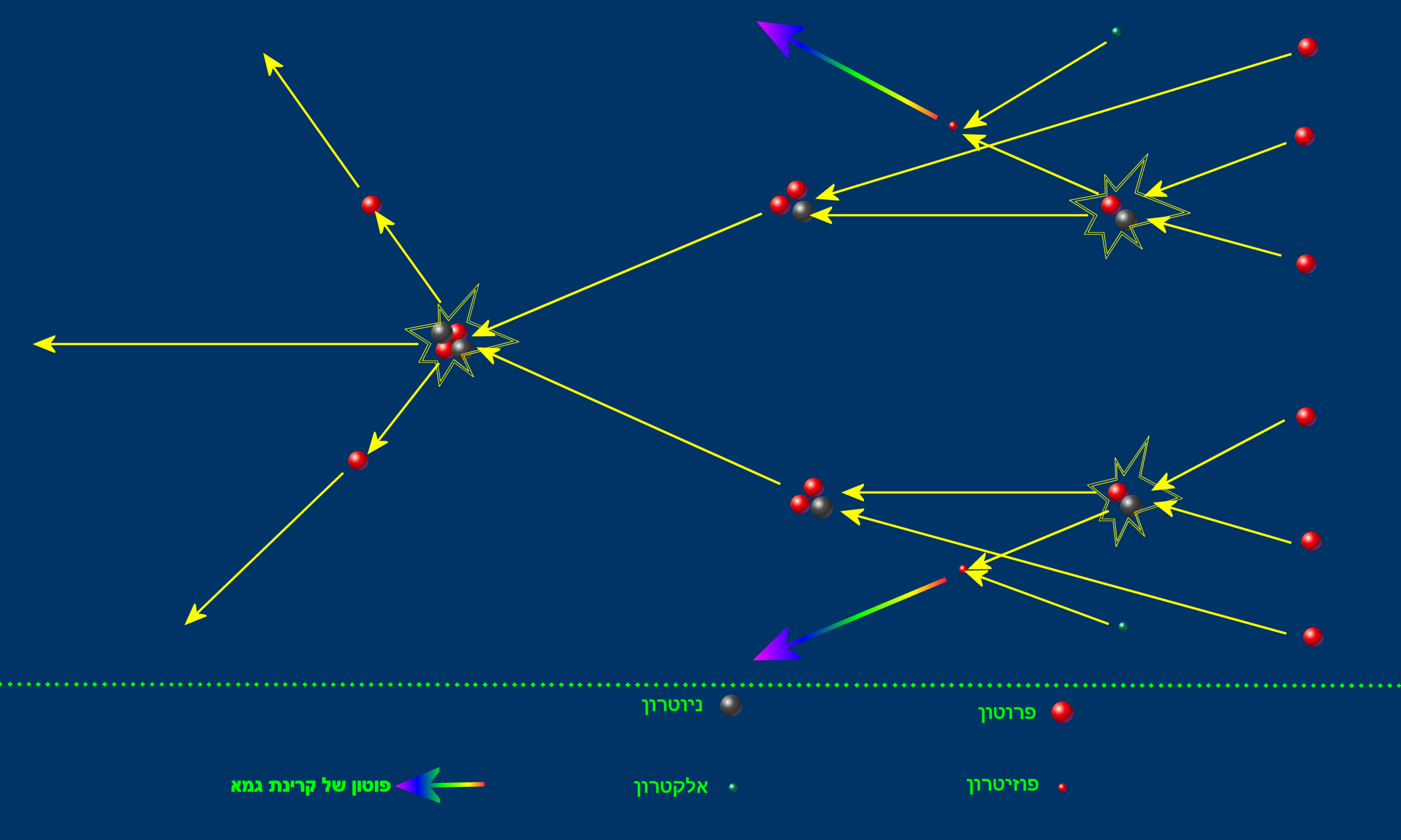 The proton-proton chain in Hebrew